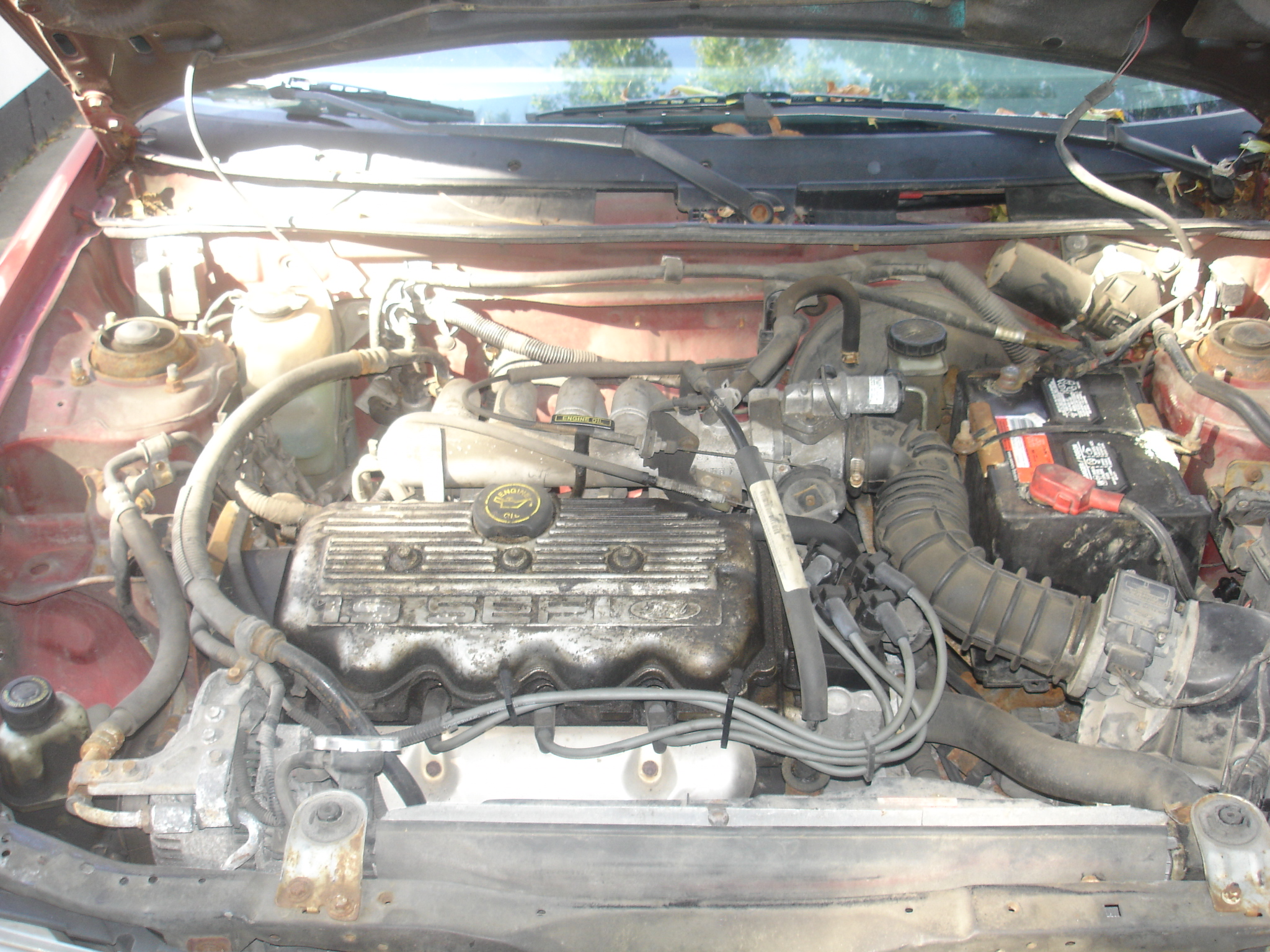 Engine bay for my Escort. i took the image.